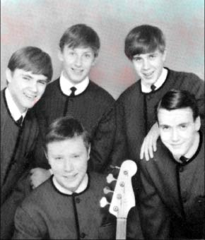 The Scaffolds